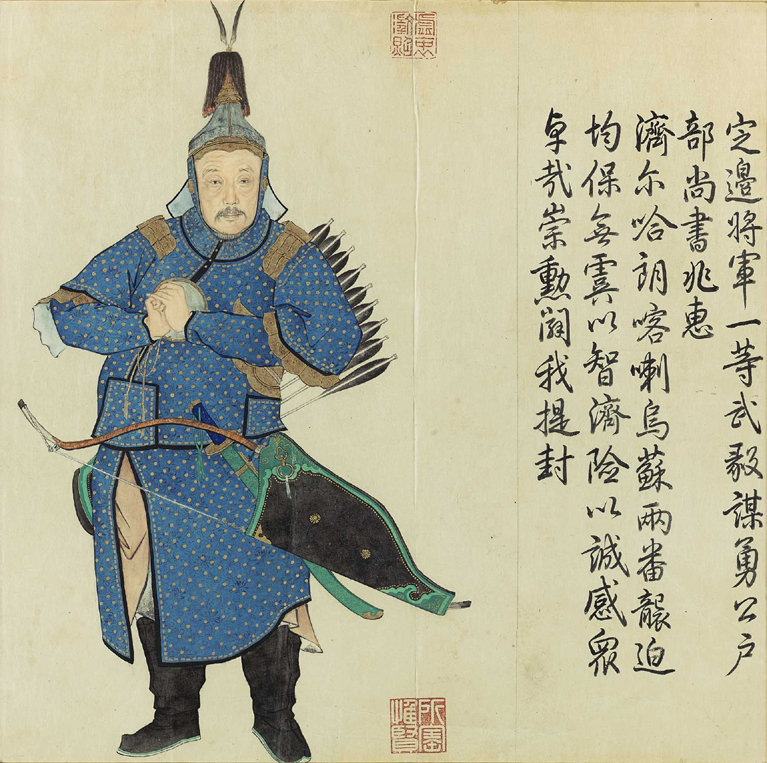 Jaohûi ( 兆惠 zhào huì ) an officer bannerman of the Qing Army during Qianlong's era.